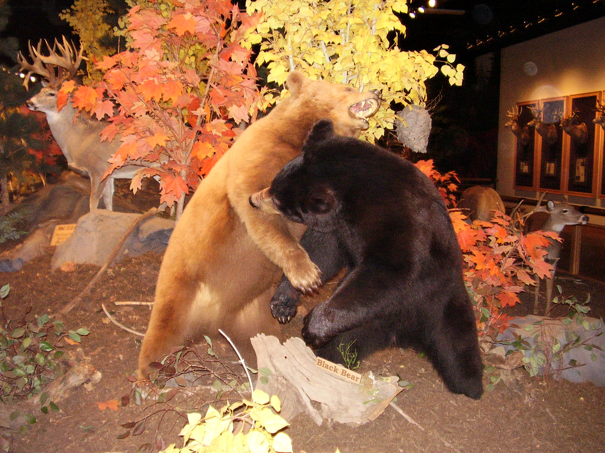 Taxidermy display featuring a black bear, grizzly bear, hornet's nest and several whitetail deer at a Cabela's store located in Wheeling.